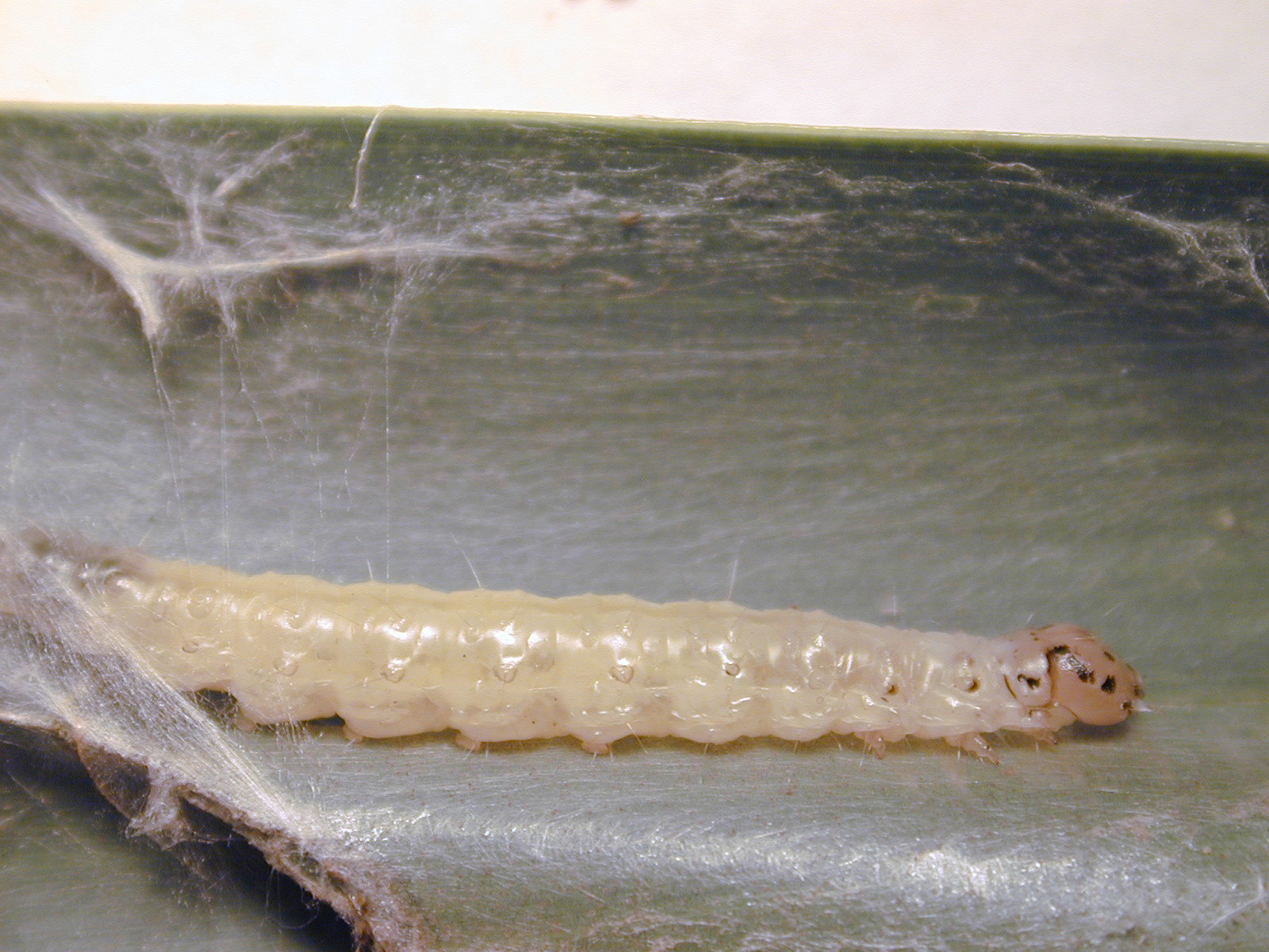 Cocos nucifera (Omioides blackburni 020511 1 larva on leaf). Location: Maui, Launiupoko